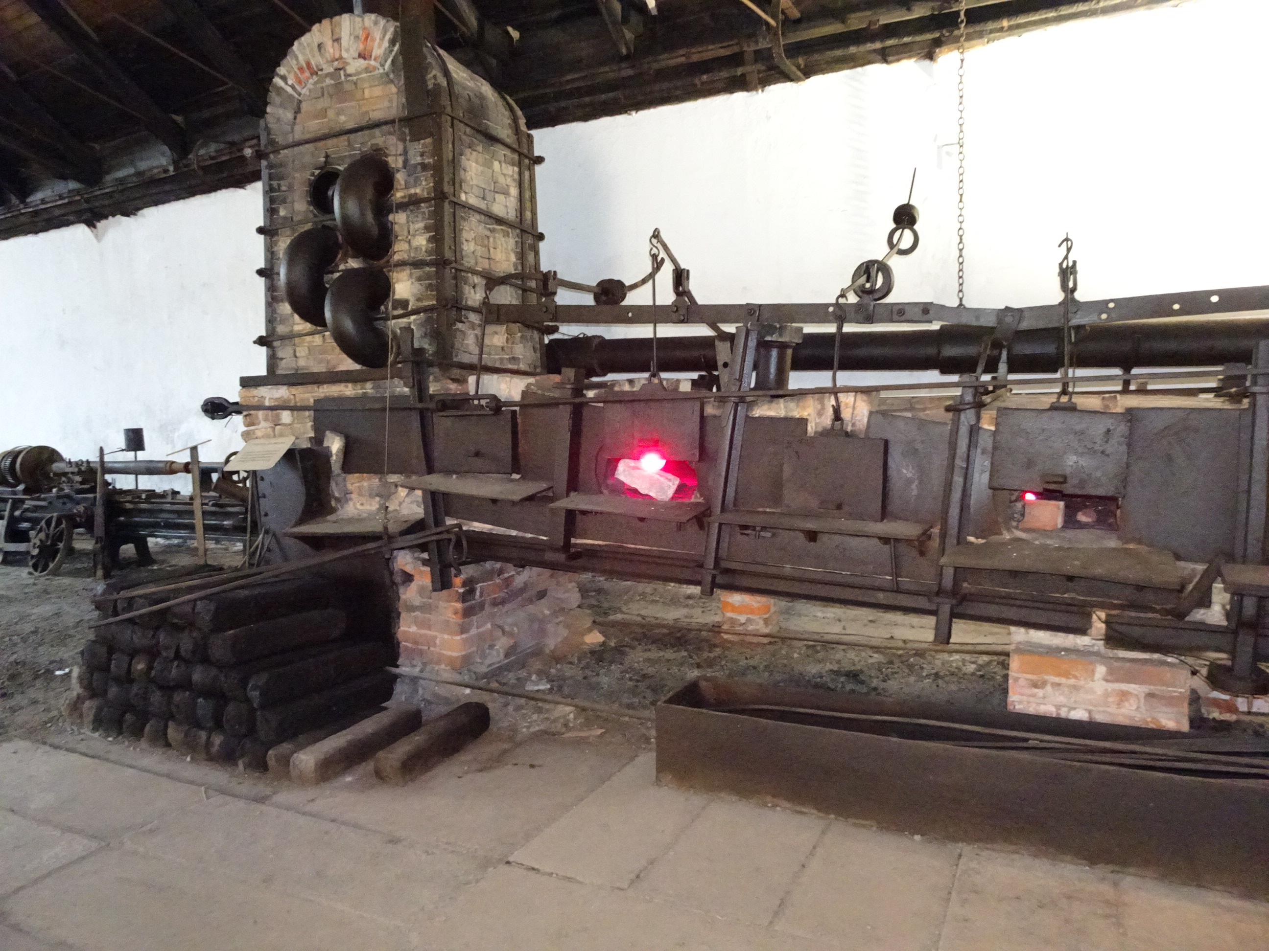 Vällugn is a type of furnace for heating the iron blocks to be rolled in the hot rolling process in the rolling mill. It was used in Swedish iron works from 1845 to about 1950. Surahammar iron works museum, Surahammar, Sweden.